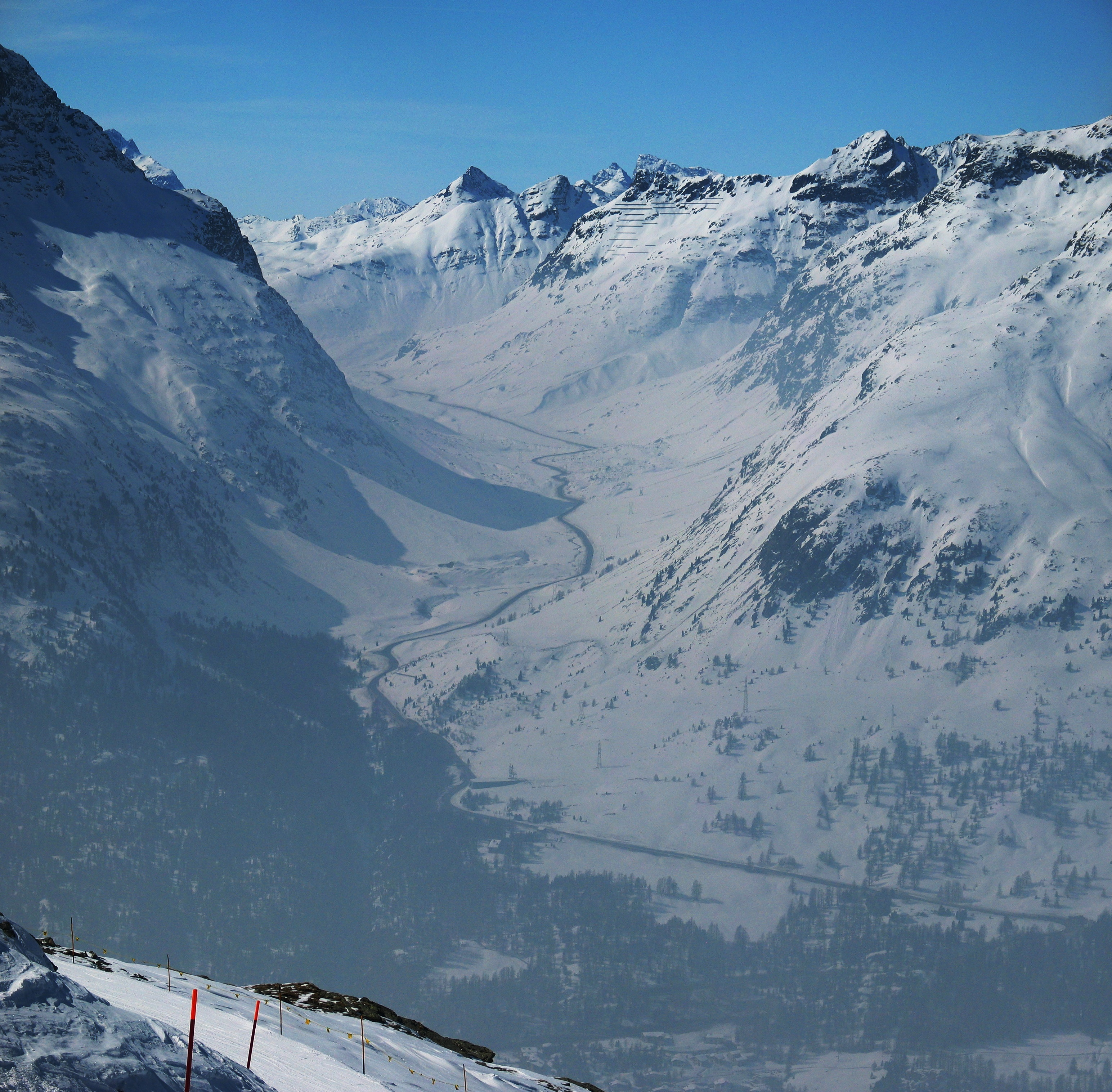 Southeren ramp of the Julier Pass crossing the Albula range, as seen from Hahnensee ski slope near St. Moritz, Swizerland.